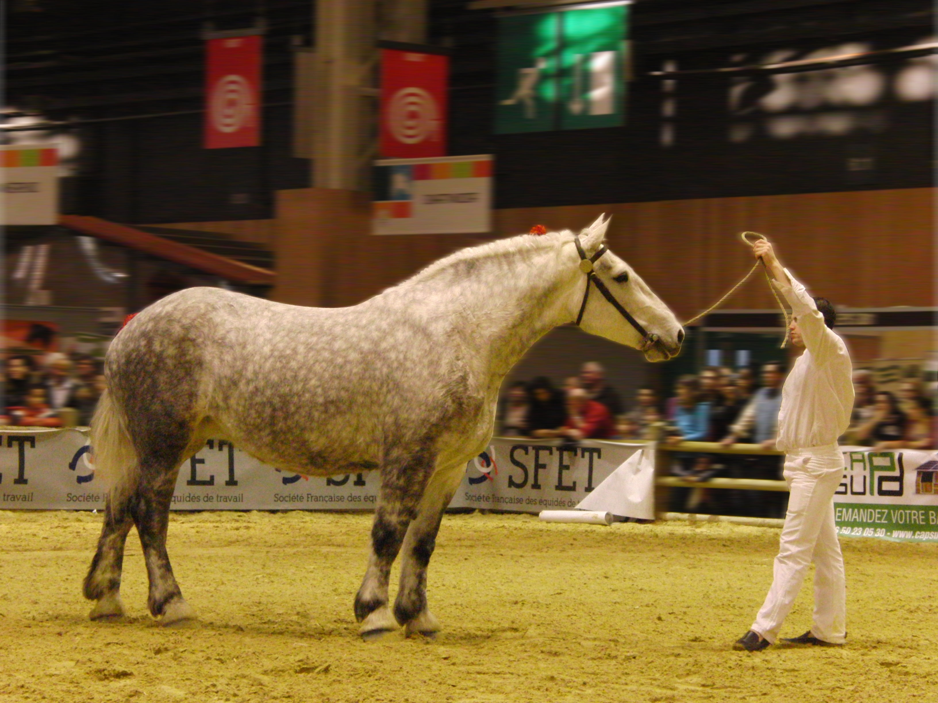 A grey Percheron horse at the 2014 International Agriculture Show in Paris, France